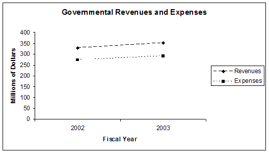 Seminole County, Florida Revenues and Expenses - Excel from data in Financial Statement.